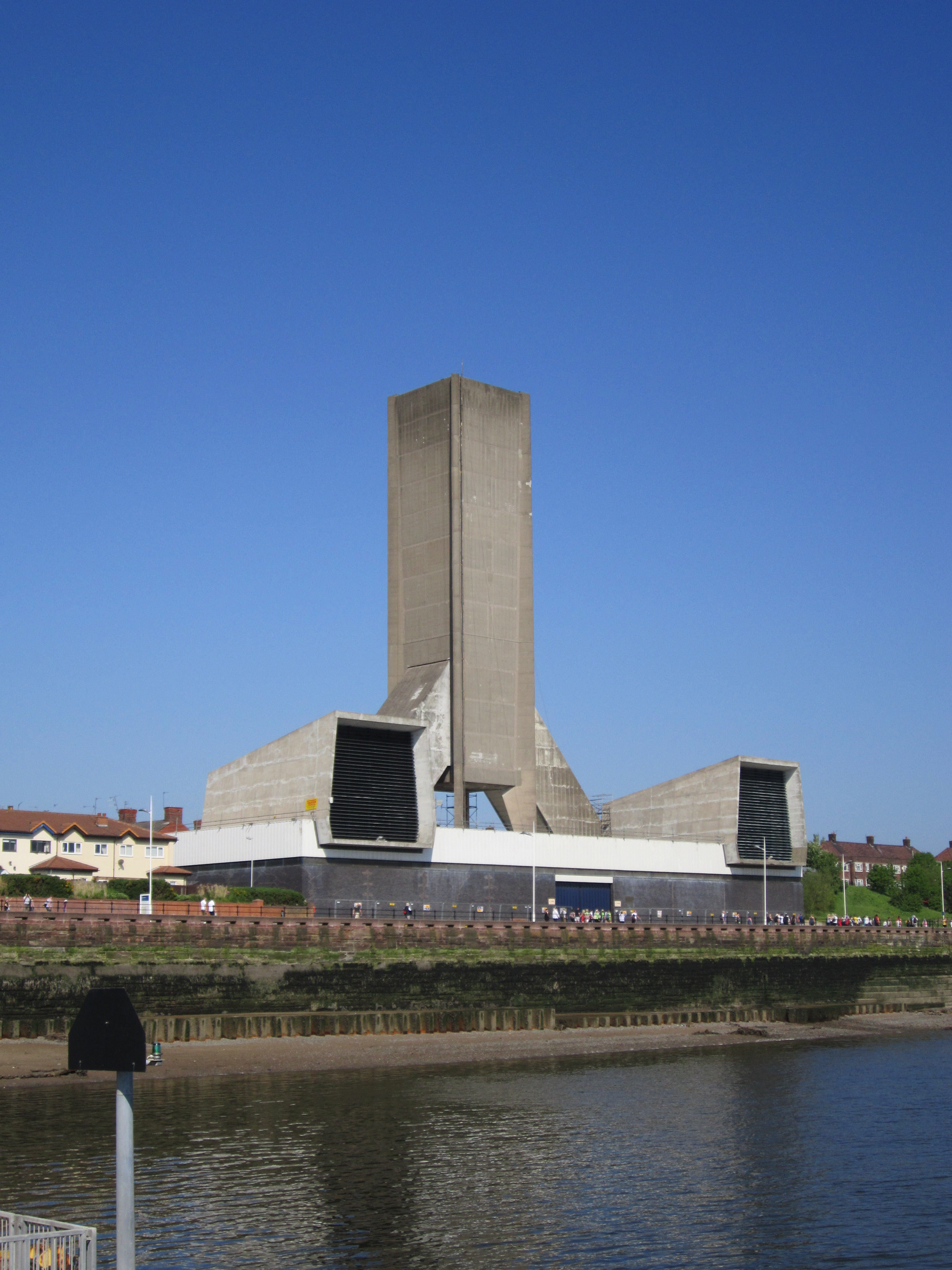 Kingsway tunnel ventilation shaft on Seacombe Promenade, Wallasey, Merseyside, England.